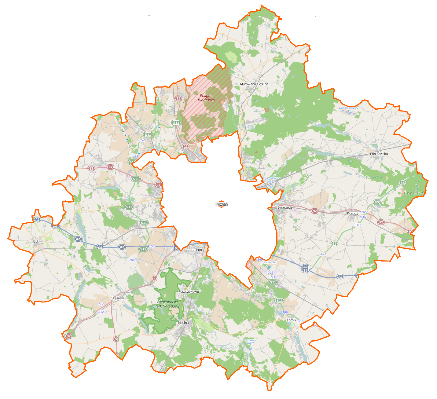 Map of Powiat poznański, Poland This map of Powiat poznański was created from OpenStreetMap project data, collected by the community. This map may be incomplete, and may contain errors. Don't rely solely on it for navigation. Border coordinates52.686816.4362←↕→17.416852.1402